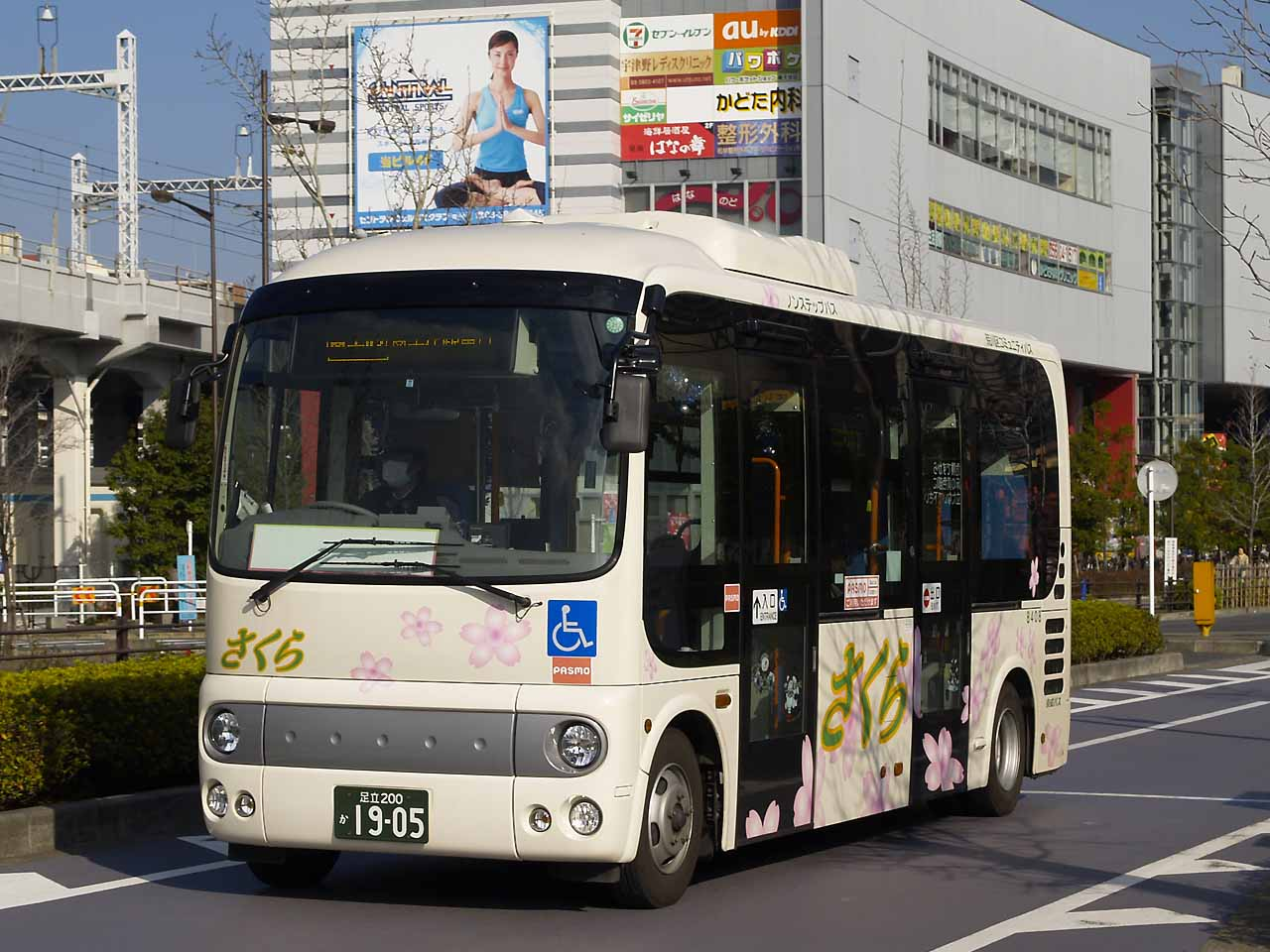 Fleet of Arakawa ward community route bus "SAKURA", operated by Keisei Bus. Model: Hino Poncho BDG-HX6JLAE License plate: TKA200 KA1905 `Place: Minami-Senju station east, Arakawa ward, Tokyo Japan